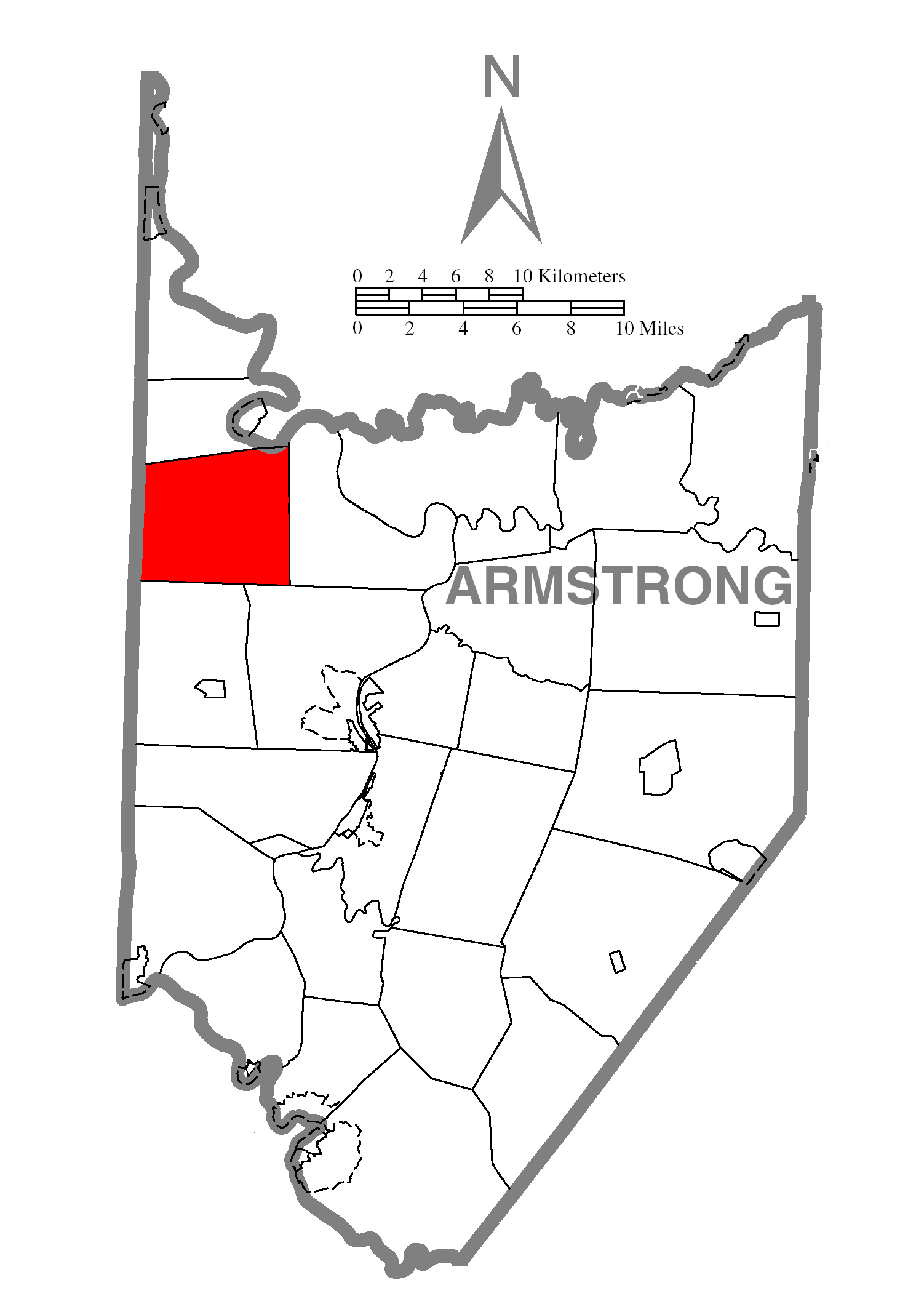 A map of Armstrong County showing Sugarcreek Township, Pennsylvania (alternate) highlighted on the map.